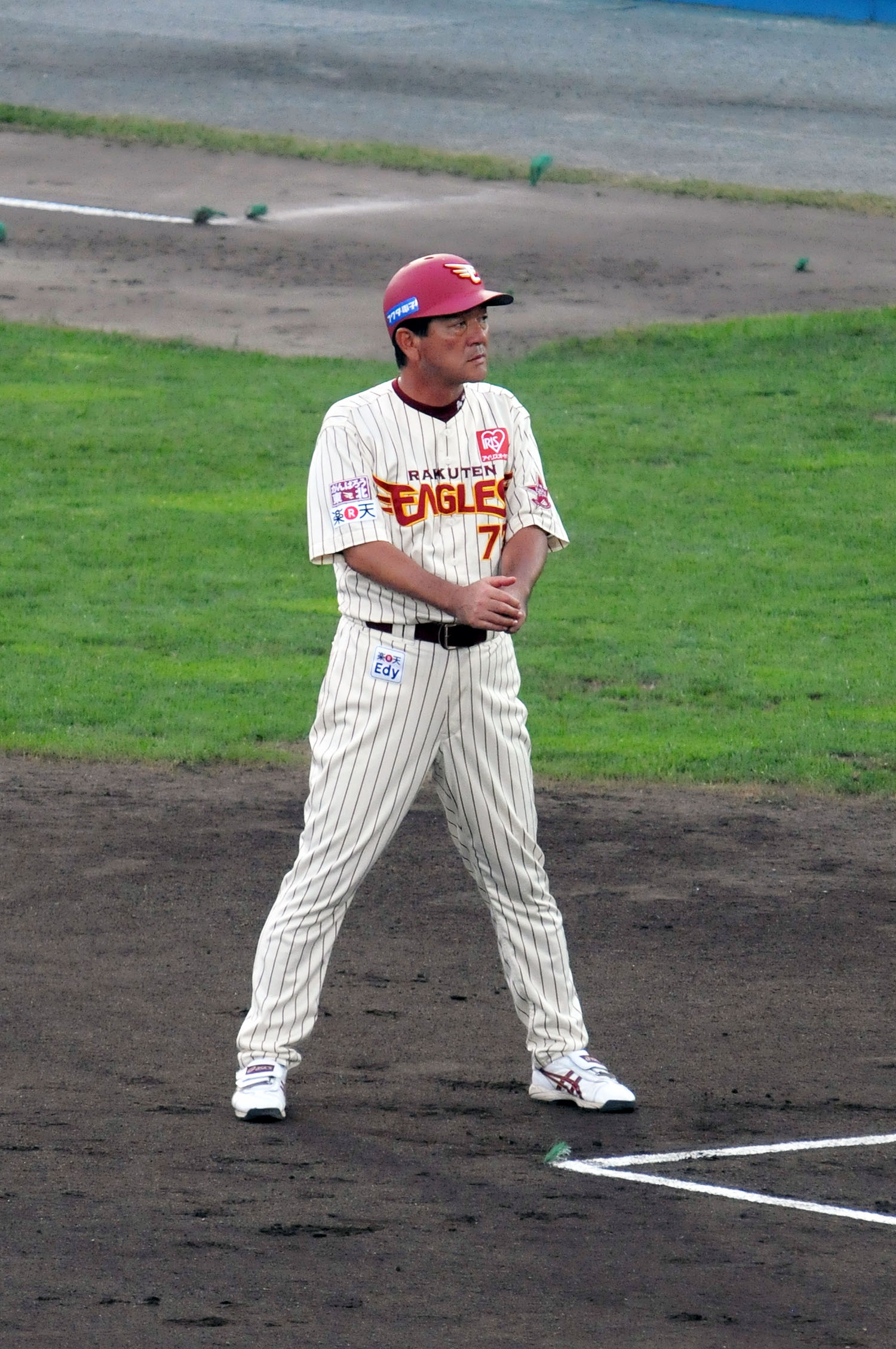 Yasutomo Suzuki, coach of the Tohoku Rakuten Golden Eagles, at Akita Prefectural Baseball Stadium.